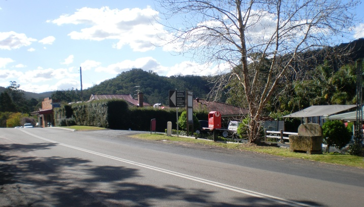 The main street of the village of Yarramalong, NSW